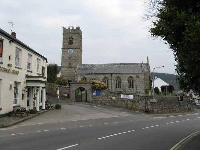 Church of St. Blaise, St. Blazey, Cornwall. This church, built in 1842, stands in a prominent position on the north side of the A390 opposite the junction with Station Road. The 'Cornish Arms' is seen to the left.